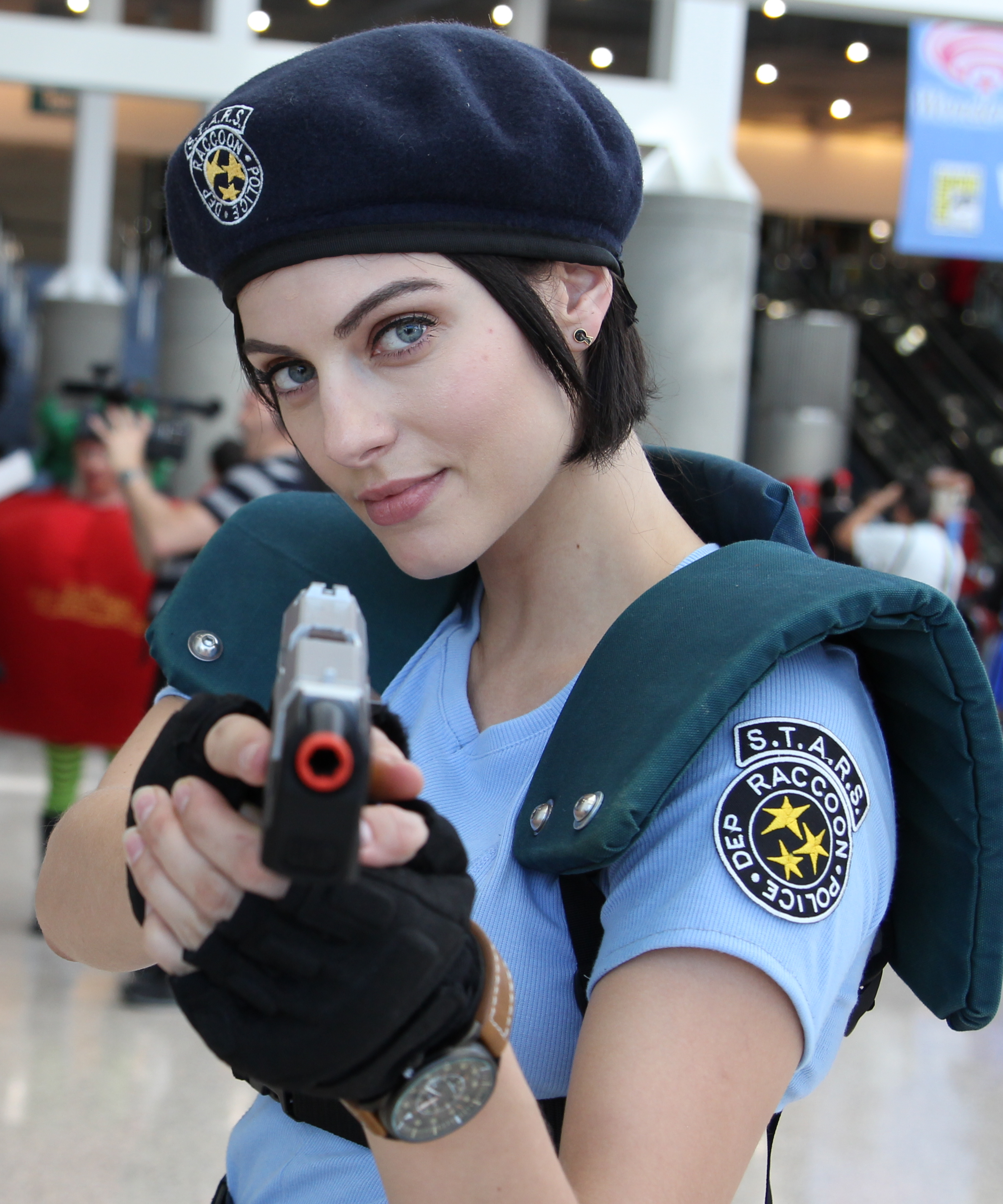 Julia Voth cosplaying as Jill Valentine (from Resident Evil) at WonderCon 2016, cropped from original file